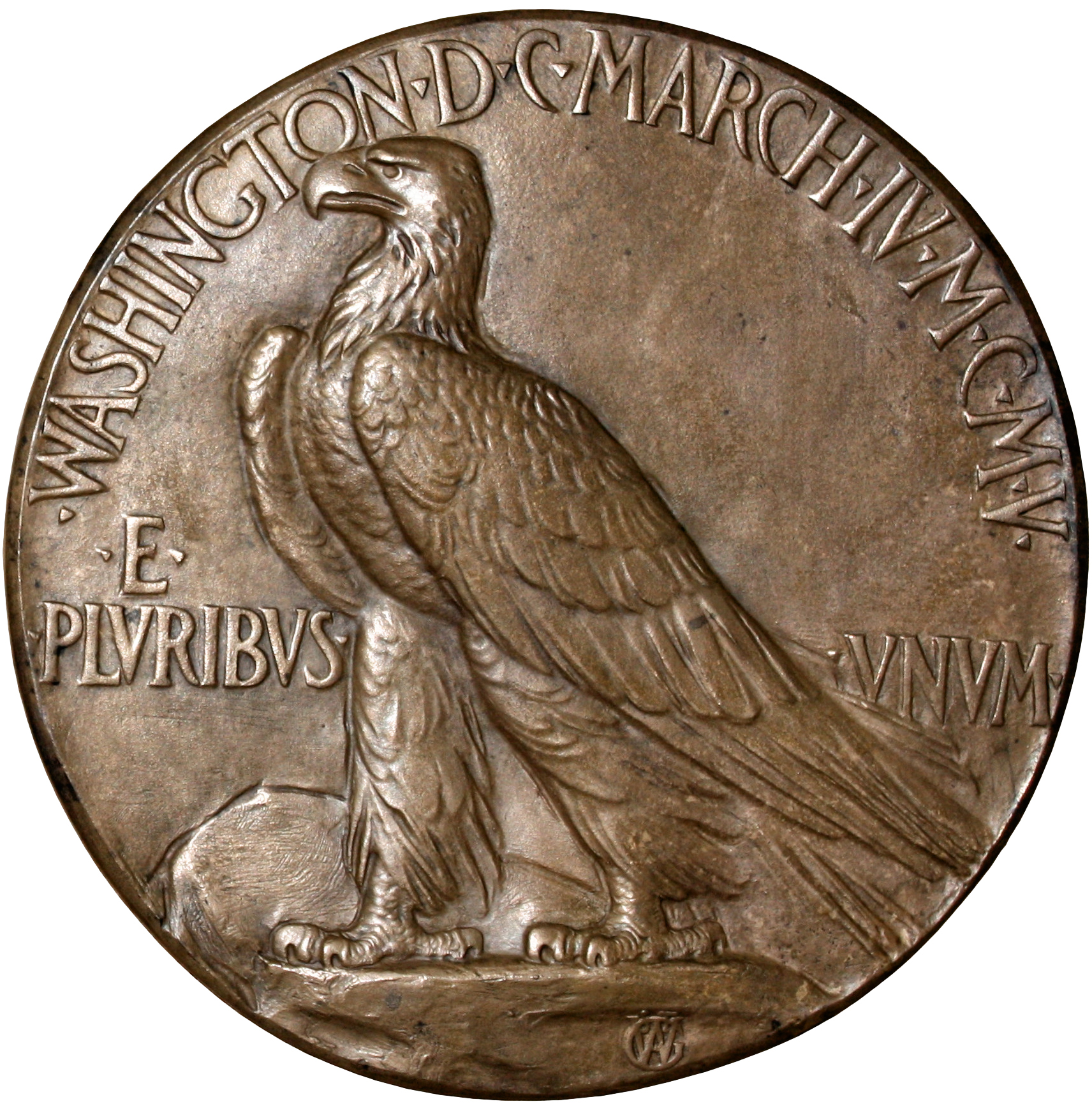 Reverse of unofficial medal prepared by Augustus Saint-Gaudens for President Theodore Roosevelt's 1905 inauguration. On exhibit at the St. Gaudens National Historic Site, Cornish NH